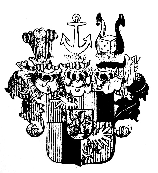 Coat of arms of the Barons of von Unruh.